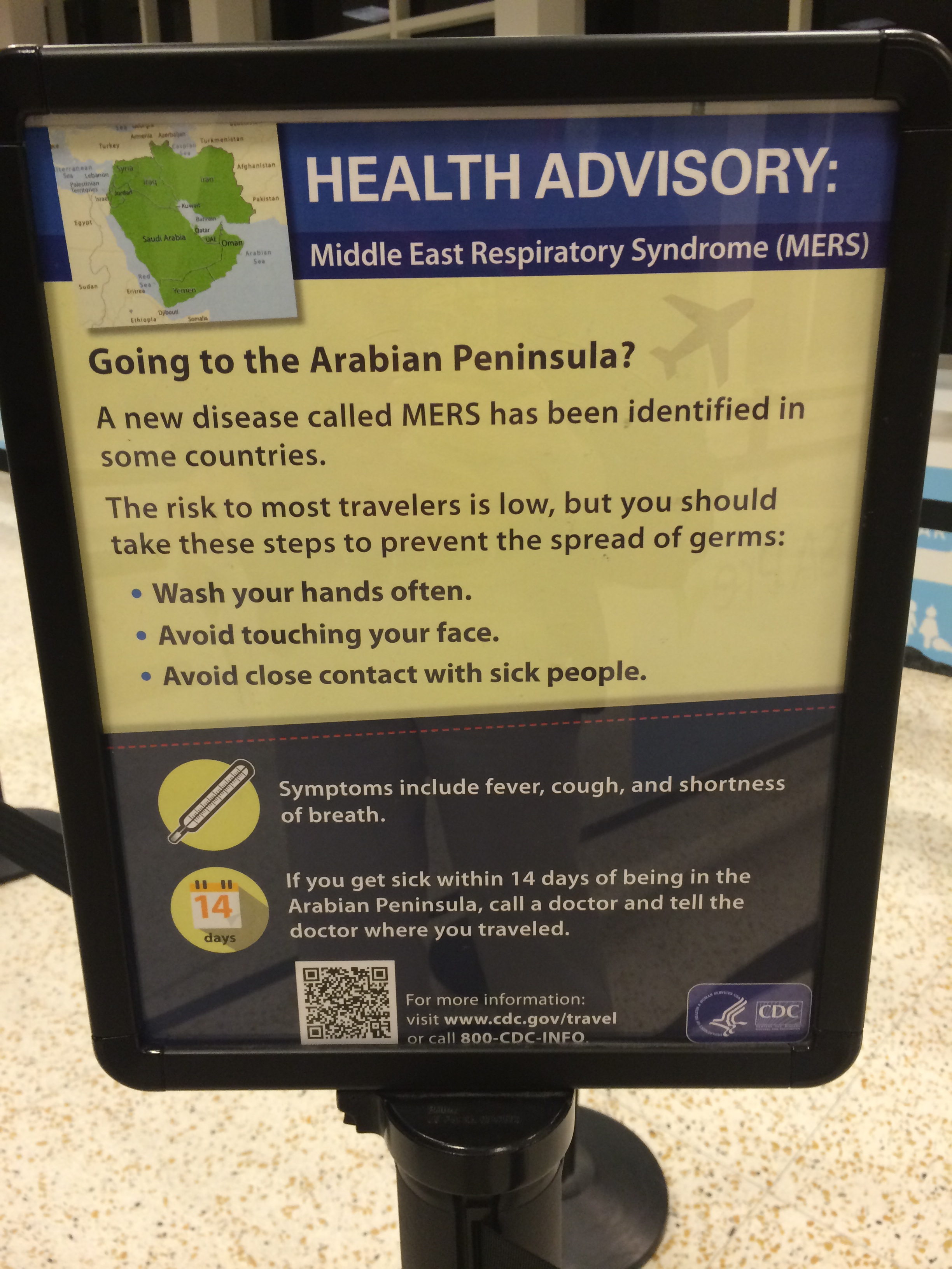 Middle East Respiratory Syndrome (MERS) Health Advisory at George Bush Intercontinental Airport (IAH) in Houston, Texas.